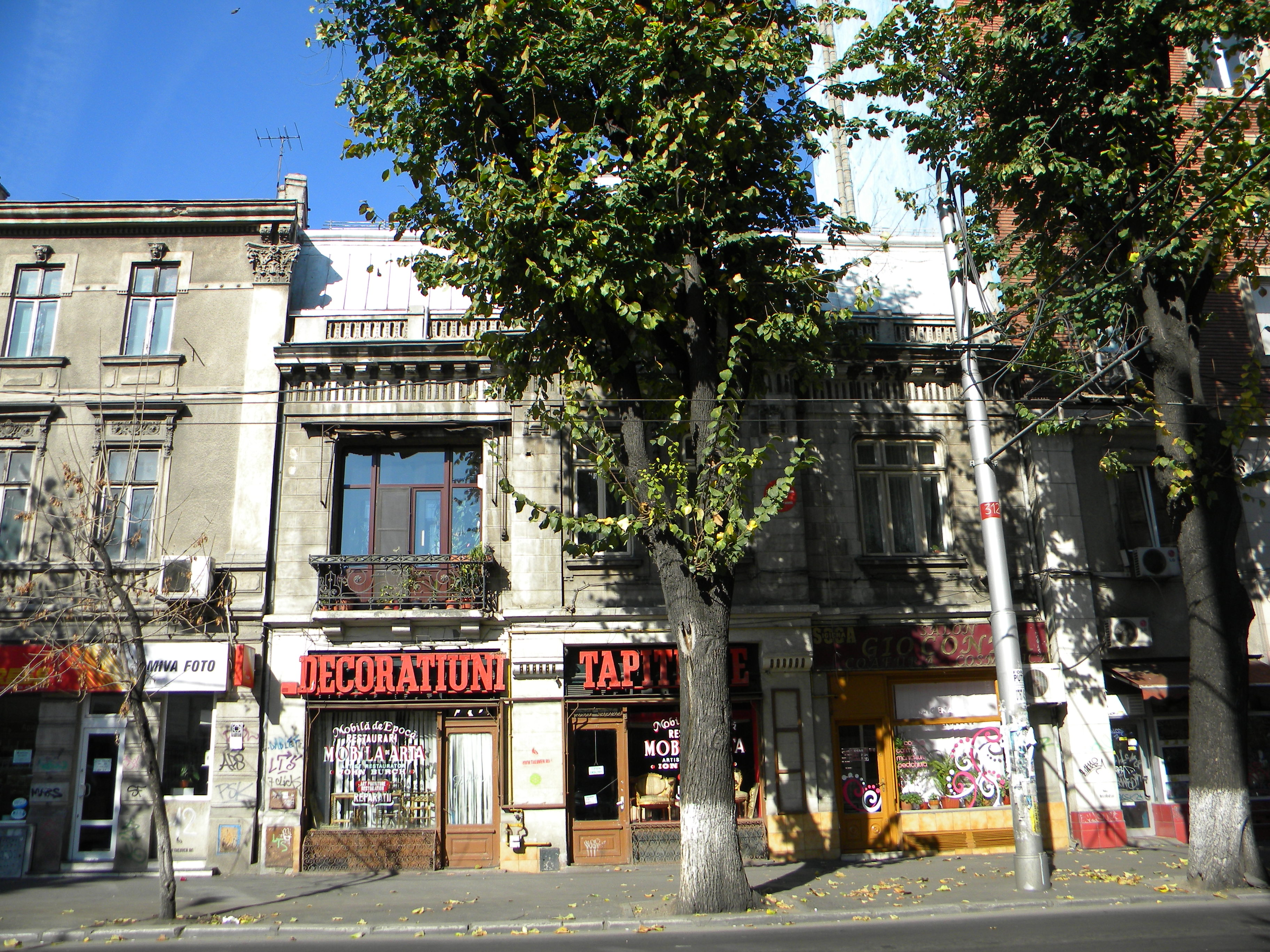 Bucuresti, Romania, Bd. Carol I, Imobil nr. 27, sect. 2, (B-II-m-B-18315)